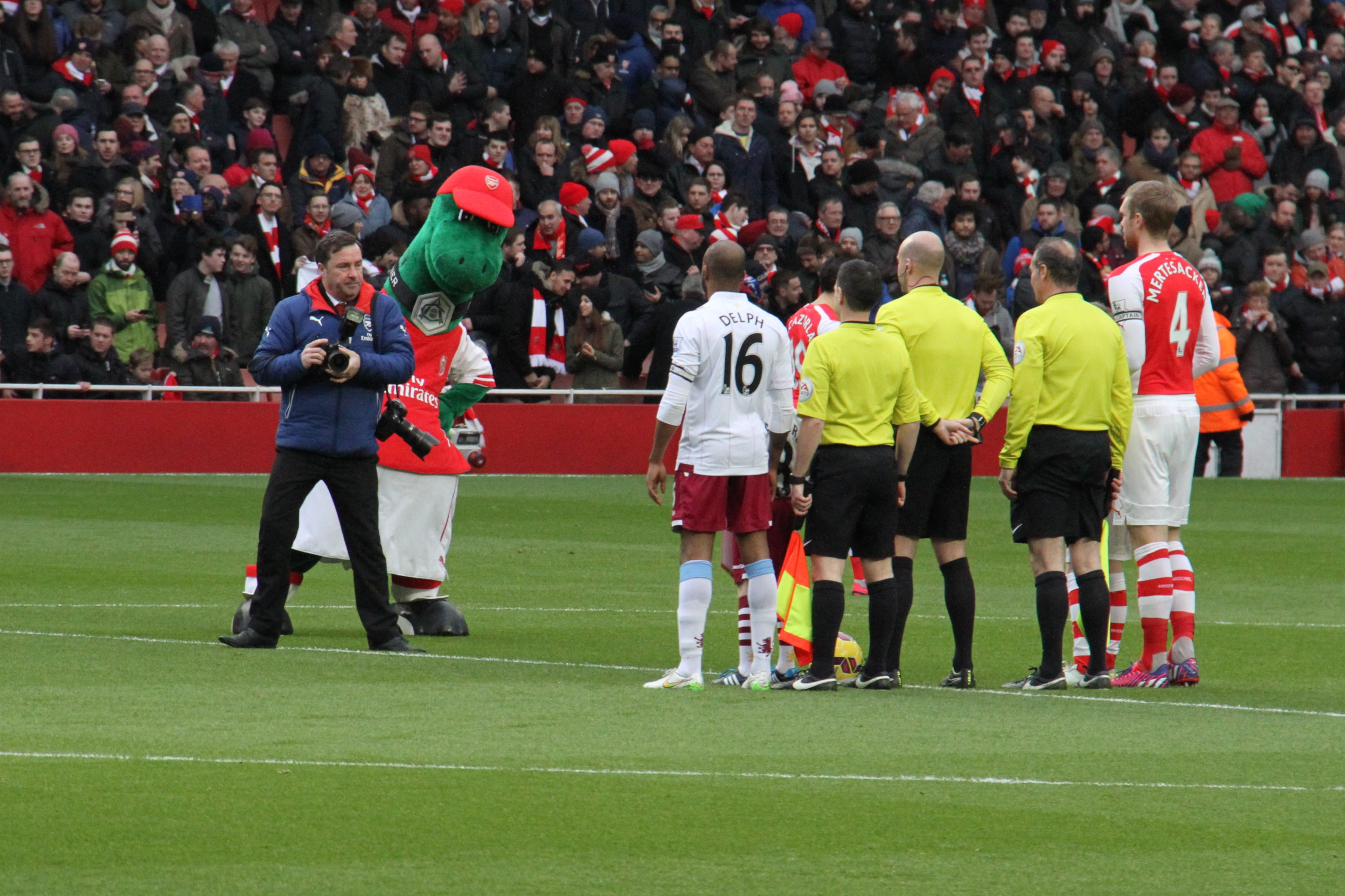 "Watch the Gunnersaurus"!